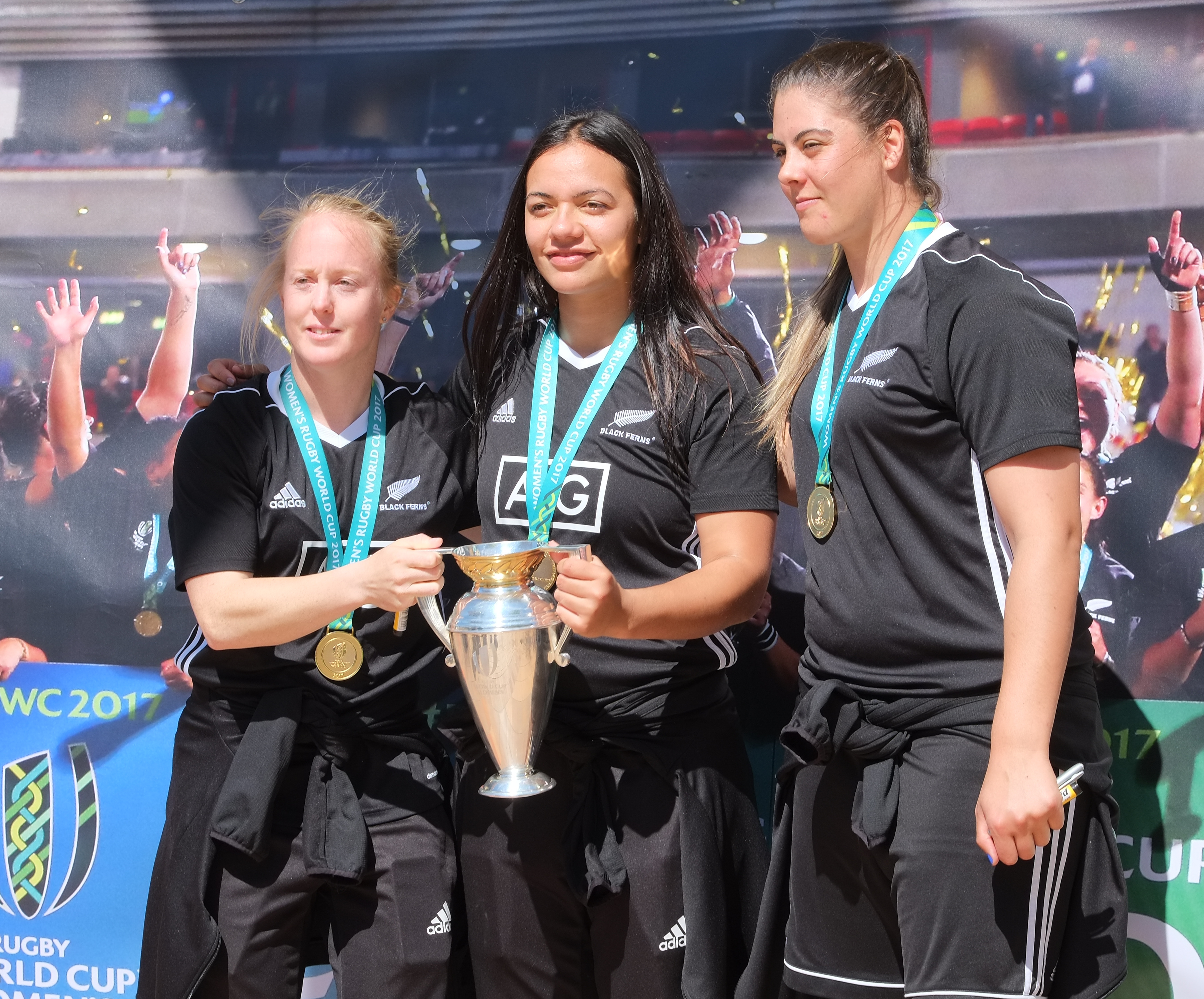 Black Ferns Kendra Cocksedge, Stacey Waaka, Eloise Blackwell with Women's Rugby World Cup trophy and WRWC medals